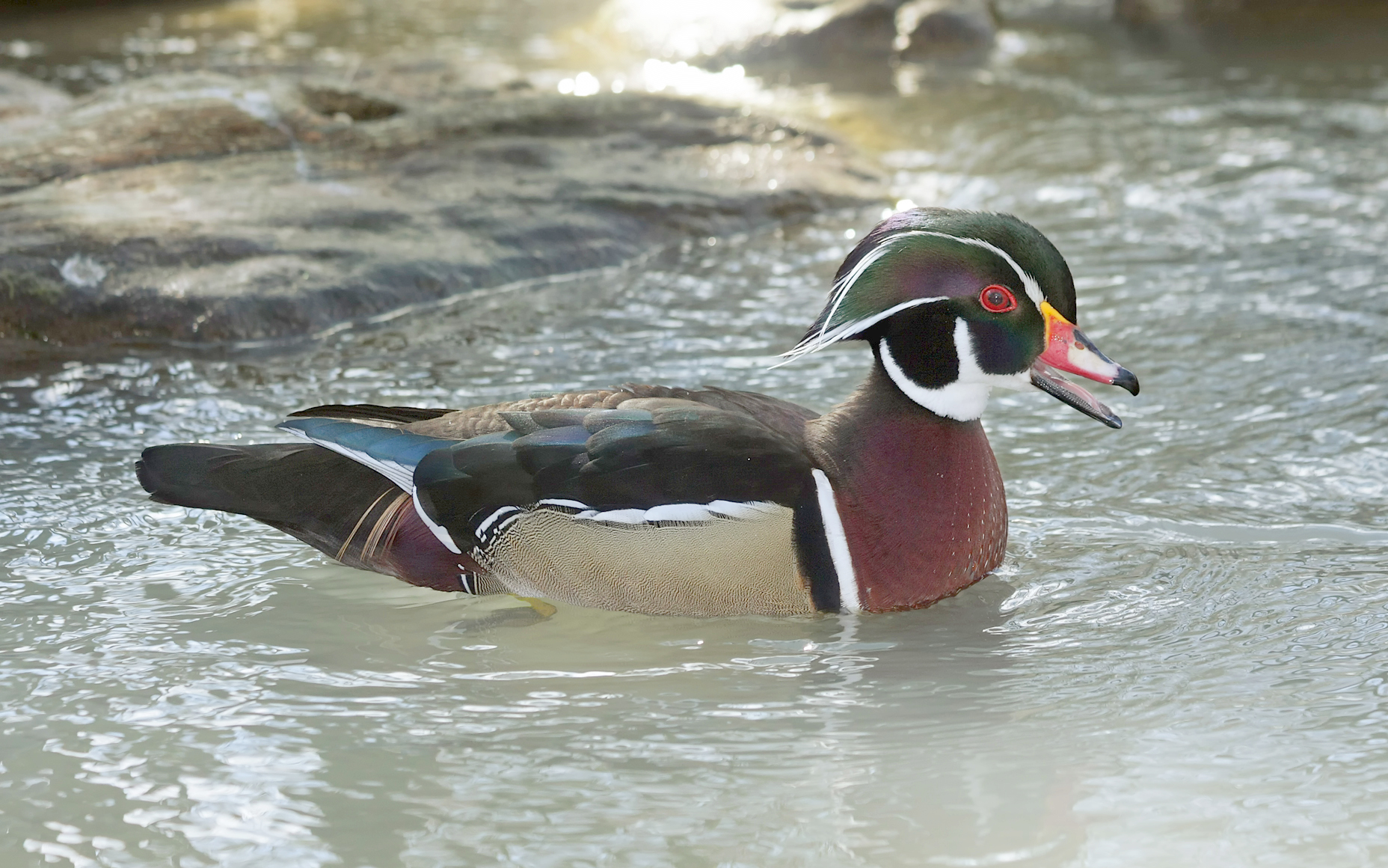 The Wood Duck or Carolina Duck, Aix sponsa is a medium-sized perching duck.